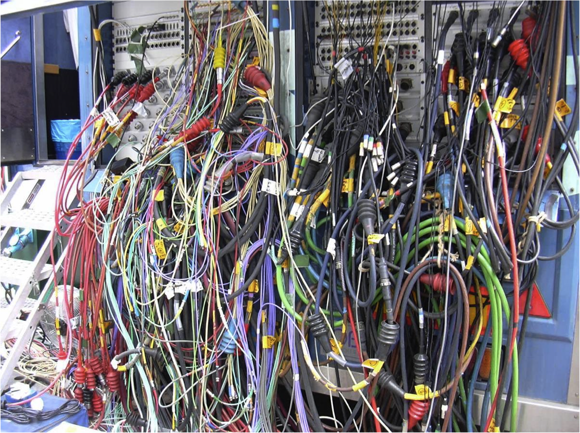 Patchbay wiring in a modern television studio